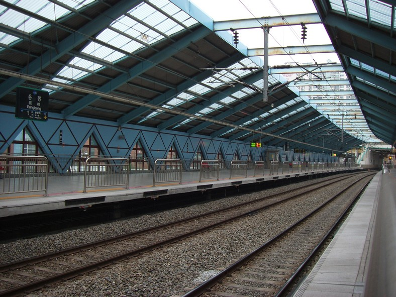 Eungbong Station